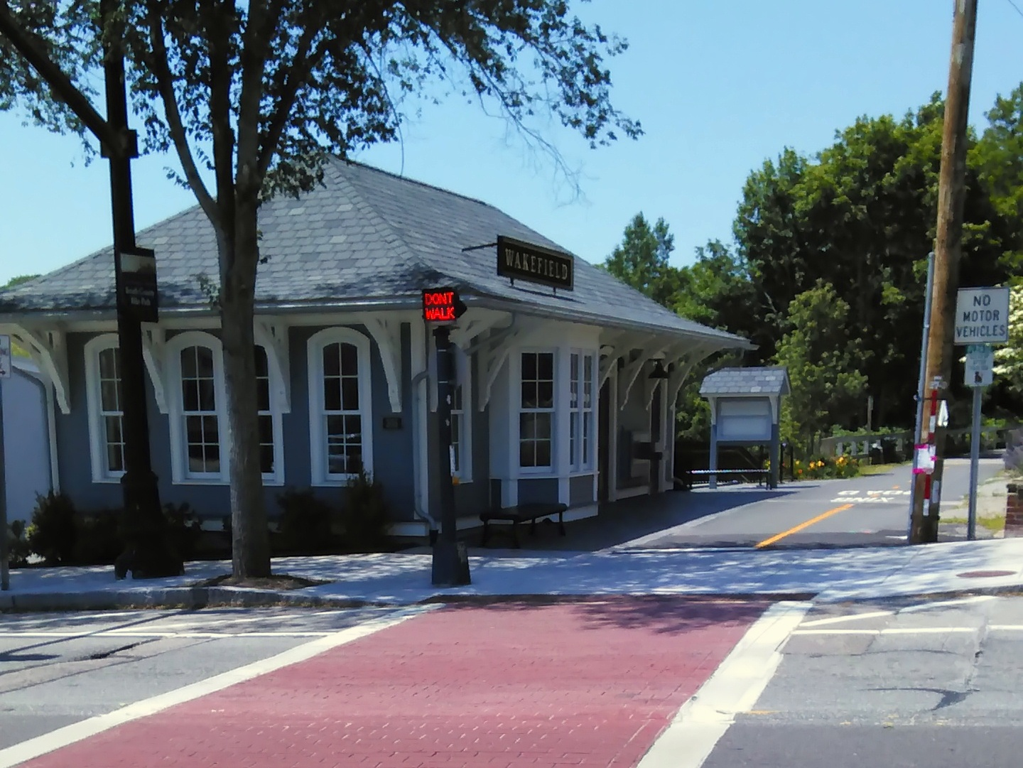 South County Bike Path crossing RI-108, with the former Wakefield station at left